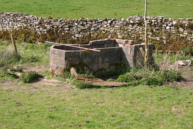 Entrance to Manor Farm swallet The top of a shaft leading into the cave system.